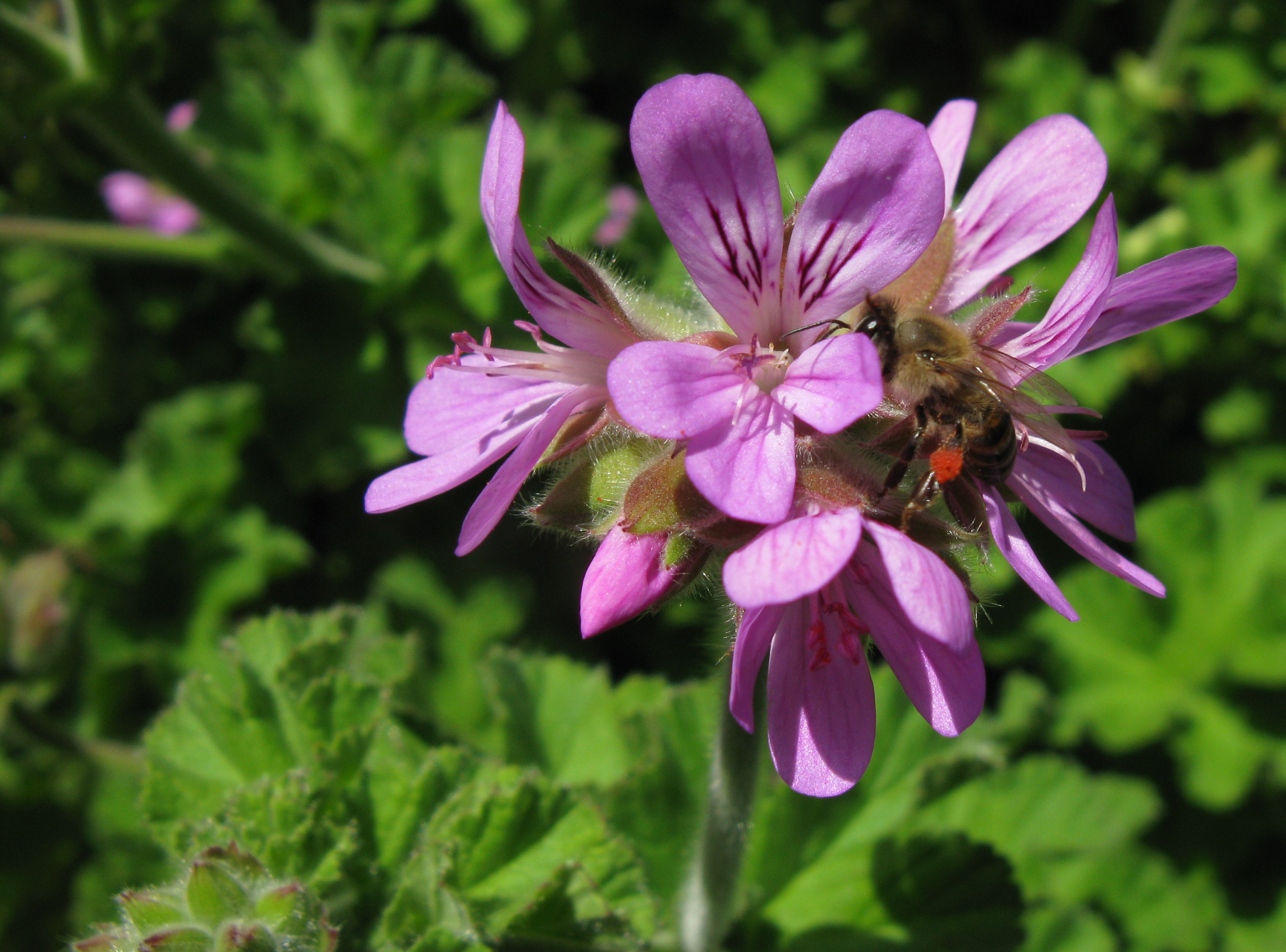 Pelargonium capitatum is known as the rose-scented pelargonium. The scent is not in the flowers, but in the essential oils of the leaf, for which It is grown commercially.